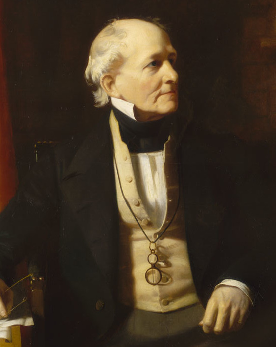 Francis Beaufort is seated in a library armchair, facing front, looking to his left